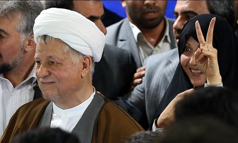 Akbar Hashemi Rafsanjani announcing his candidacy in 2013 election